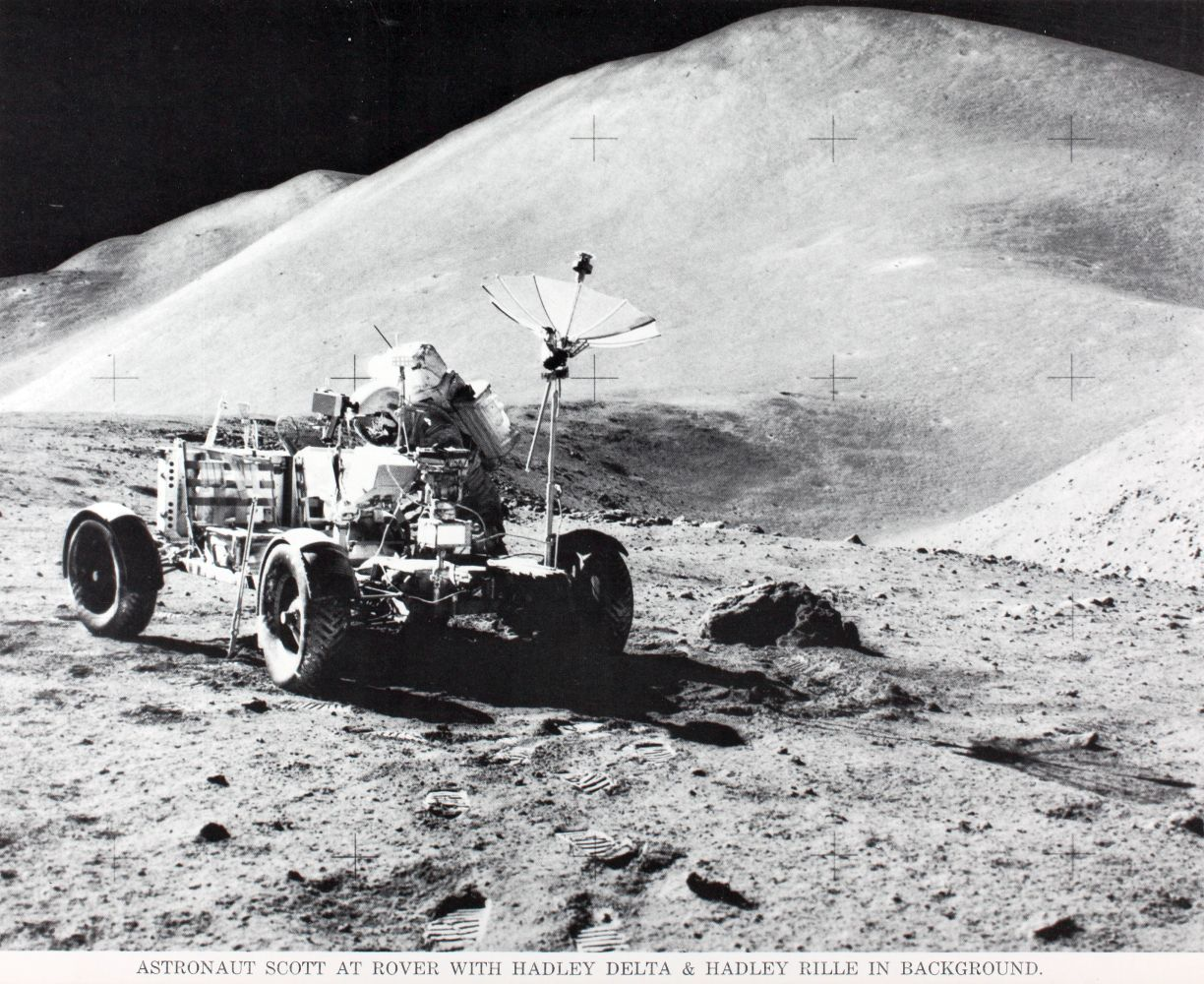 SDASM.CATALOG: 08_001919 FILE NAME: 08_01919 SDASM.TITLE: Astronaut Scott at Rover SDASM.ADDITIONAL INFO: with Hadley Delta and Hadley Rille in background SDASM.MEDIA: Glossy Photo SDASM.DIGITIZED: Yes SDASM.SOCIAL MEDIA: SDASM.TAGS: Astronaut Scott at Rover PUBLIC COMMONS.SOURCE INSTITUTION: San Diego Air and Space Museum Archive